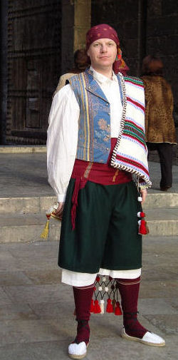 Traditional "Xaraguell" costume from Valencia, Spain. This outfit is commonly worn during the "Fallas" fiesta in March.